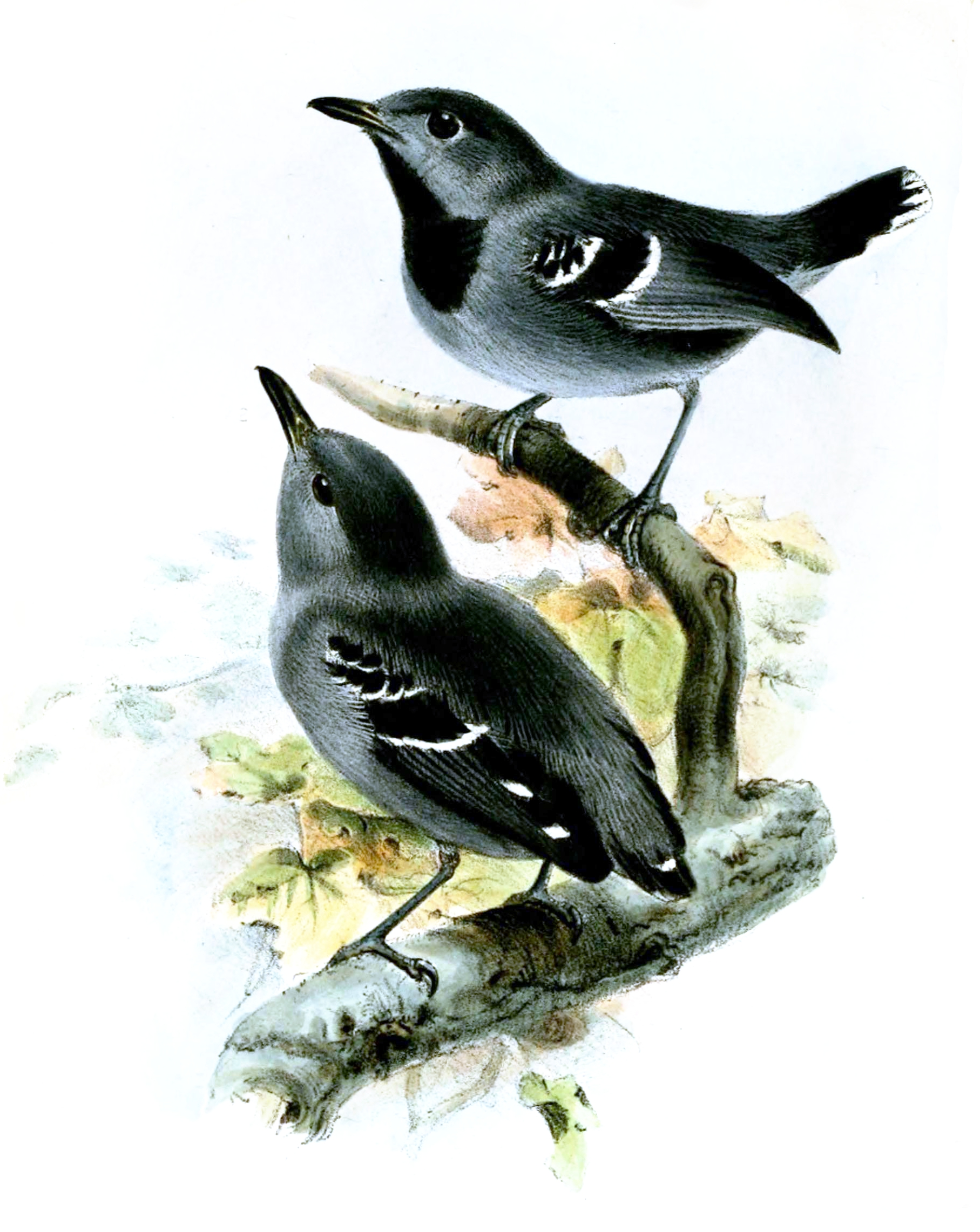 Adult males of Band-tailed Antwren (above) and Plain-throated Antwren